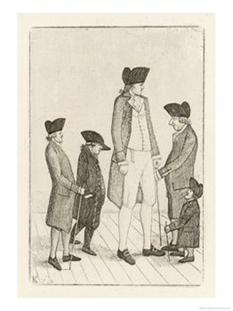 Charles Byrne (1761-1783)